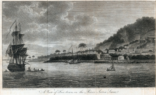 Freetown, Sierra Leone; at the beginning of the XIX century.